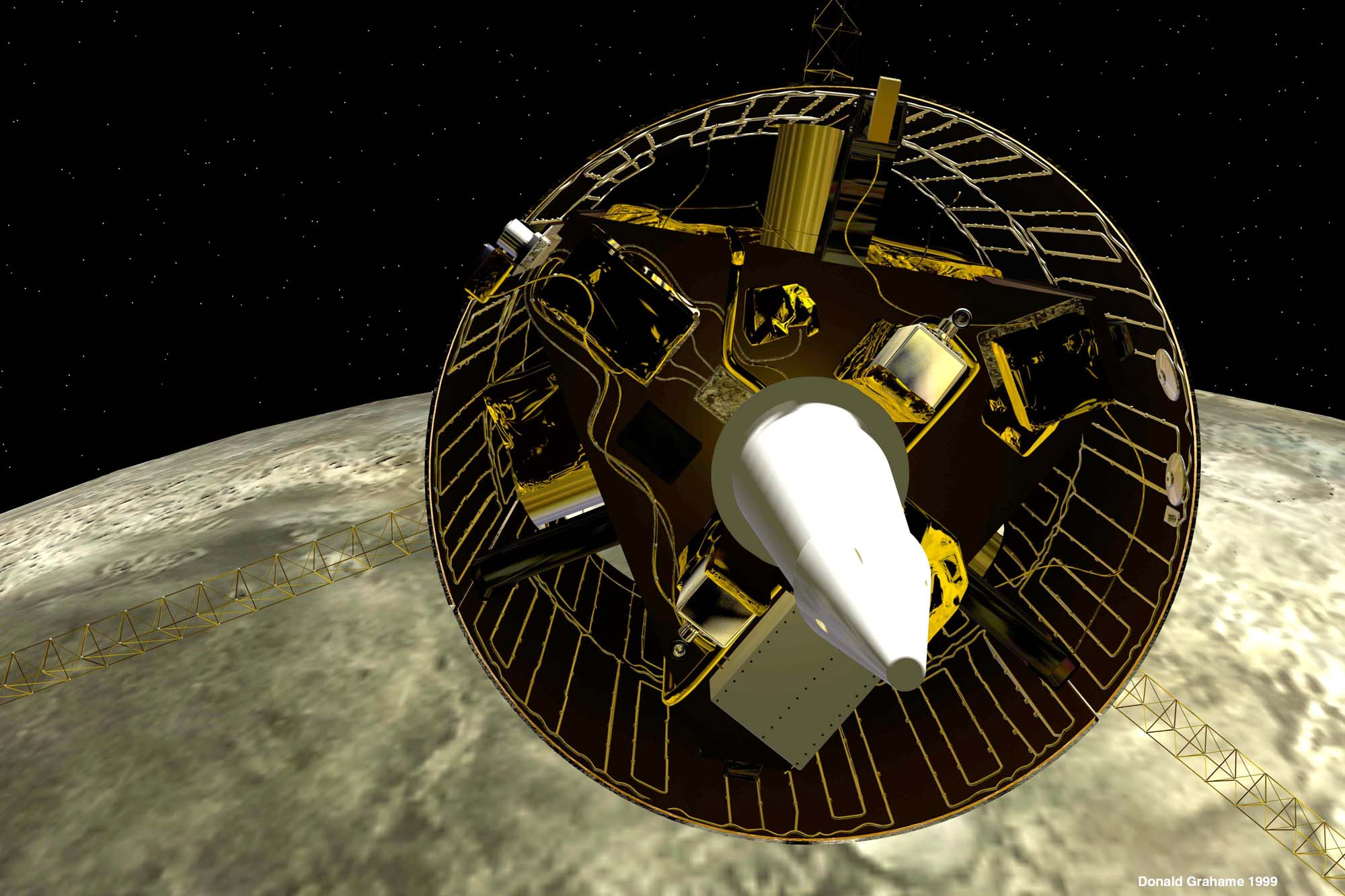 This image is an artist's conception of the Lunar Prospector spacecraft, head-on, just before it impacts the Moon.